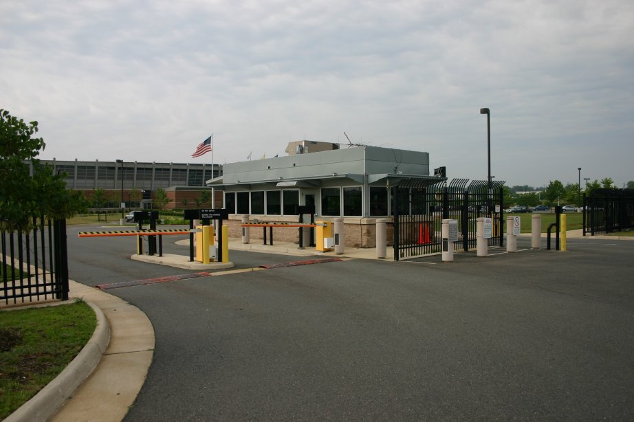 Entrance to the Federal Aviation Administration's Potomac Consolidated TRACON facility in Vint Hill Farms, Virginia